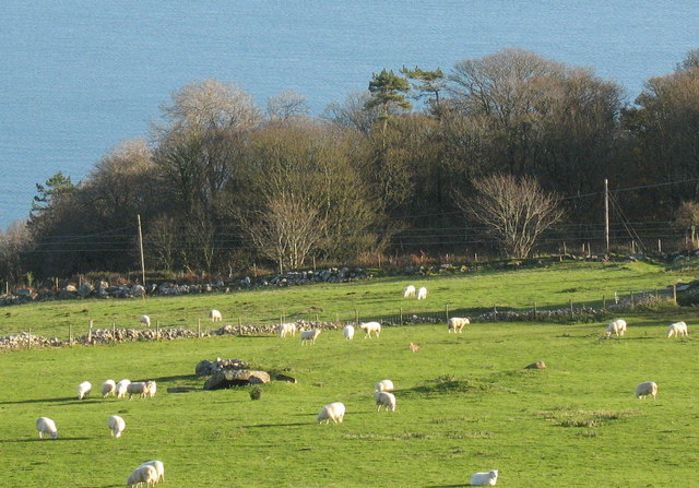 Remains of a neolithic burial chamber at Llwydfor This burial chamber is in a very ruinous state.